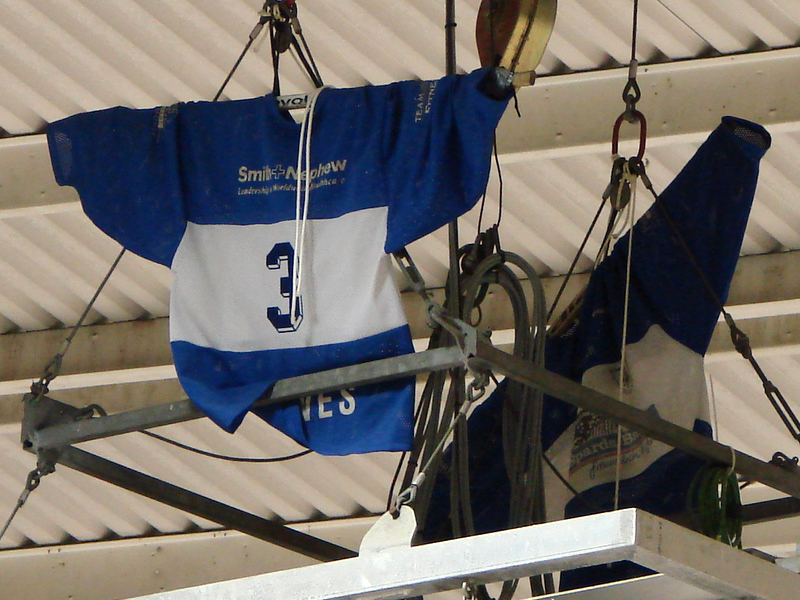 Retired numbers of the Kassel Huskies: #3 for Shane Tarves, #5 for Herbert Heinrich